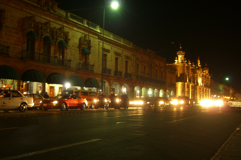 Av. Madero, main avenue in the historical centre of Morelia (Michoacán, Mexico) by night